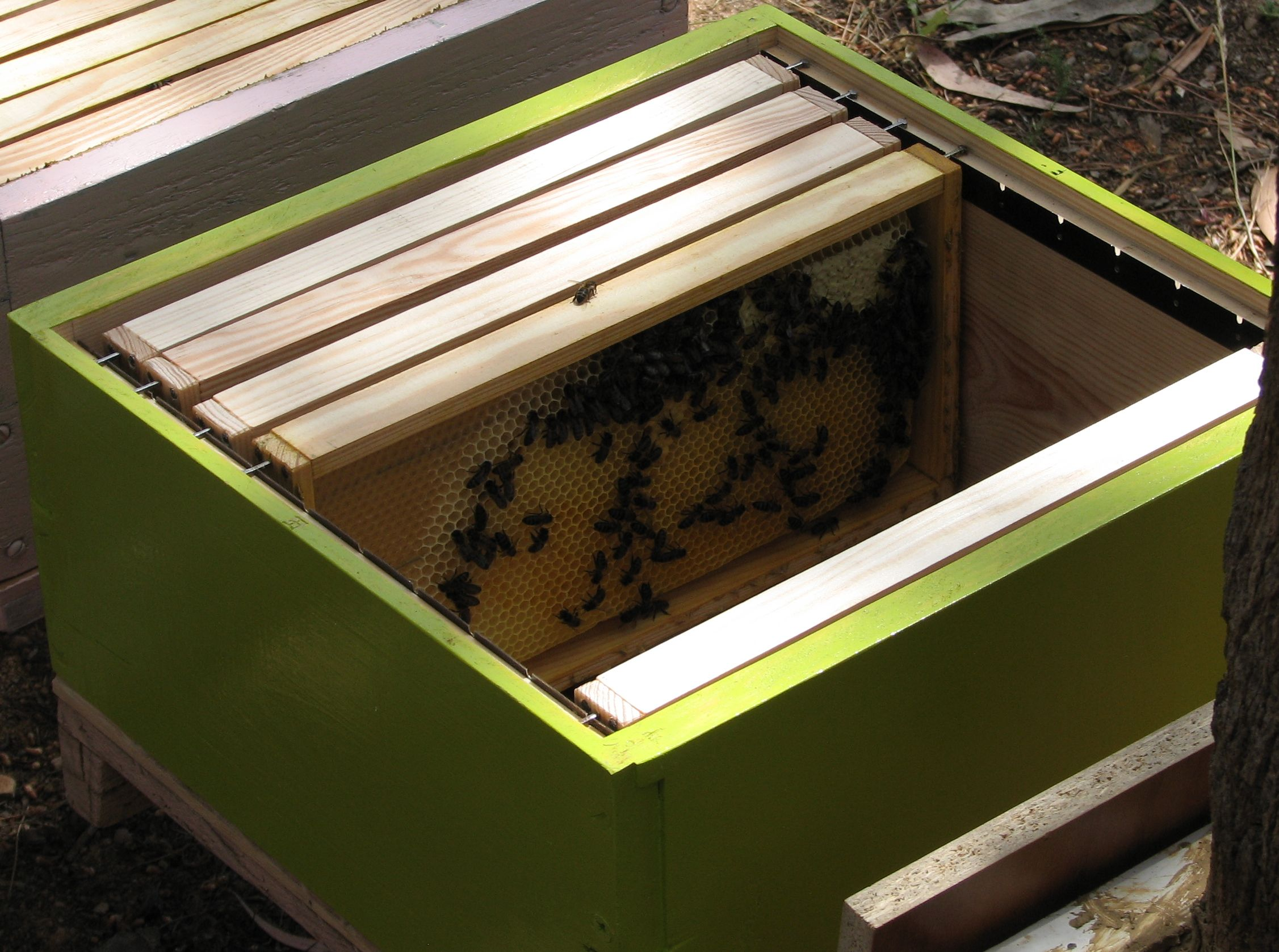 Bees inside a modern beehive Location: Torres Novas - Portugal